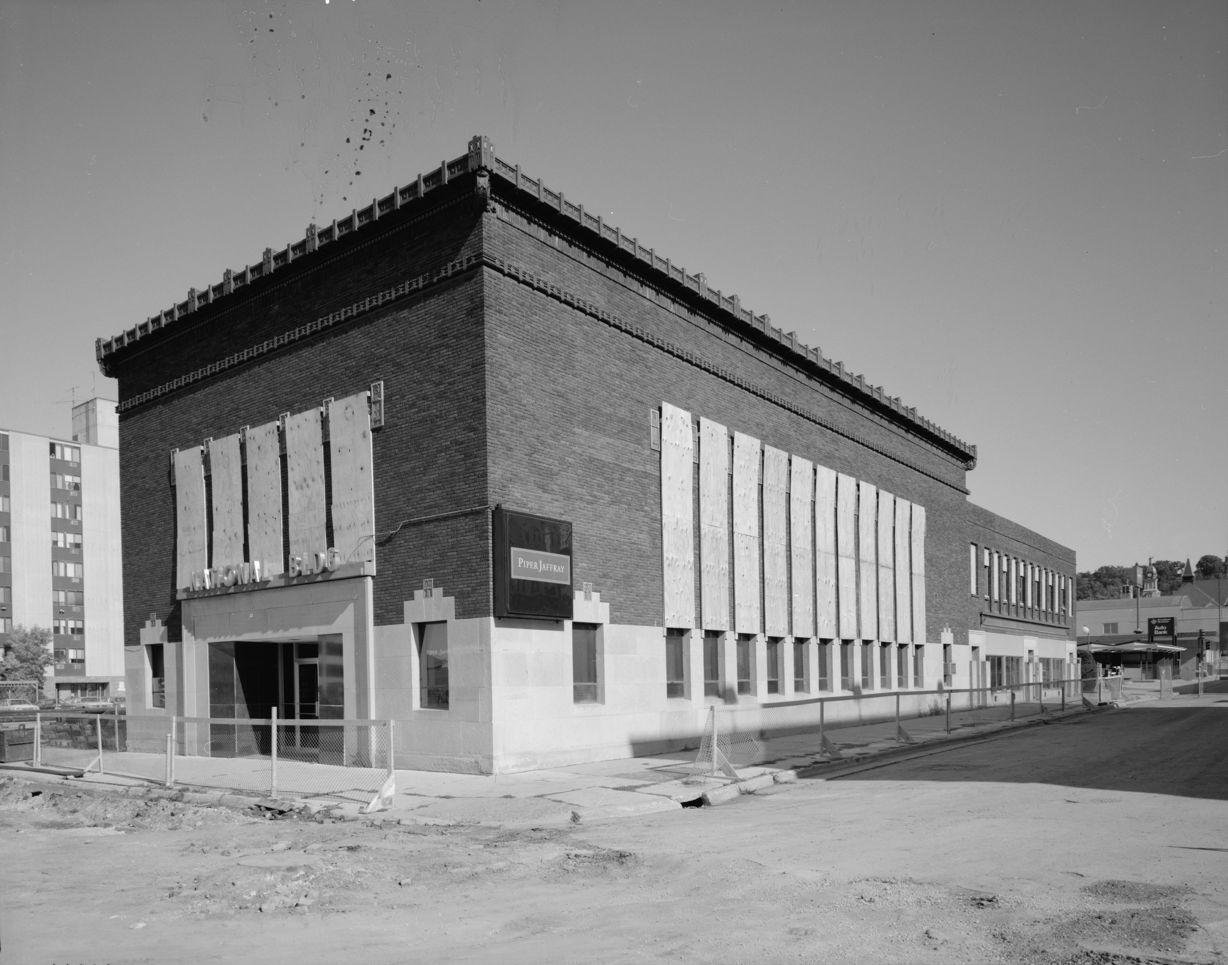 First National Bank Building, 215 River Front Drive, Mankato, Blue Earth County, MN. Built in 1913, it is recognized as one of Mankato's most handsome commercial buildings. Designed by the St. Paul firm of Ellerbe and Round, the bank is one of the state's finest examples of organically integrated Prairie Style architecture. Contextually it relates to the influence of the Prairie Style in the rural towns and small cities of Greater Minnesota and to the development of downtown Mankato as a regional center of commerce and finance.